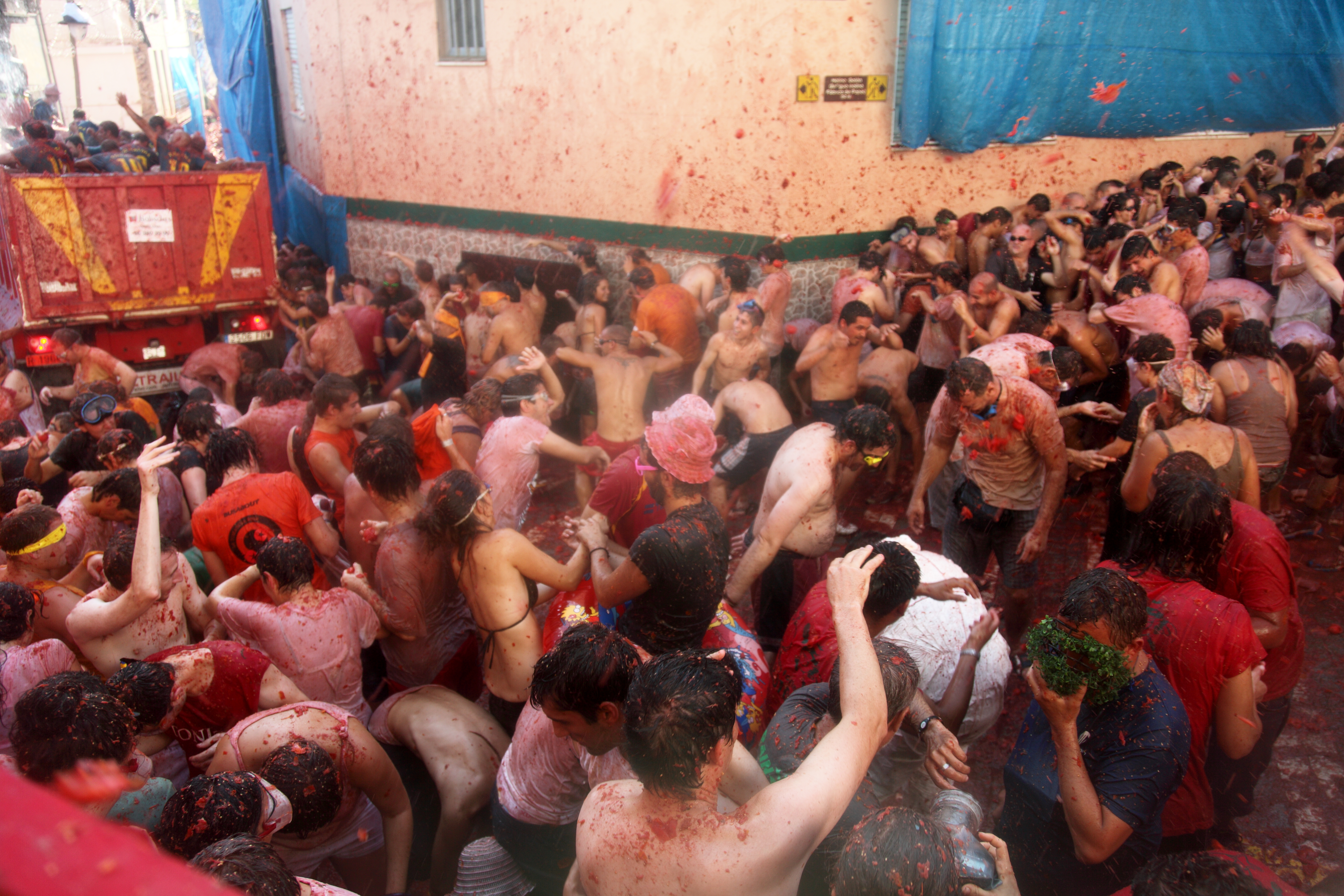 La Tomatina is a food fight festival held on the last Wednesday of August each year in the town of Buñol in the Valencia region of Spain. Tens of metric tons of over-ripe tomatoes are thrown in the streets in exactly one hour. Approximately 20,000–50,000 tourists come to find out more about the tomato fight, multiply by several times Buñol's normal population of slightly over 9,000. There is limited accommodation for people who come to La Tomatina, and thus many participants stay in Valencia and travel by bus or train to Buñol, about 38 km outside the city. In preparation for the dirty mess that will ensue, shopkeepers use huge plastic covers on their storefronts in order to protect them. They also use about 150,000 (kg) tomatoes, just about 90,000 pounds (